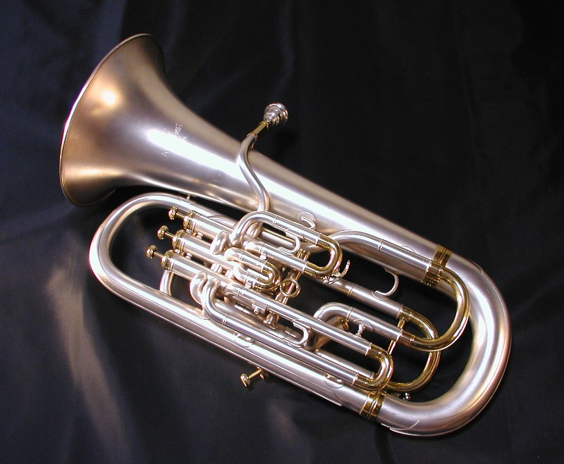 Euphonium BOOSEY & HAWKES 7674 Imperial Besson